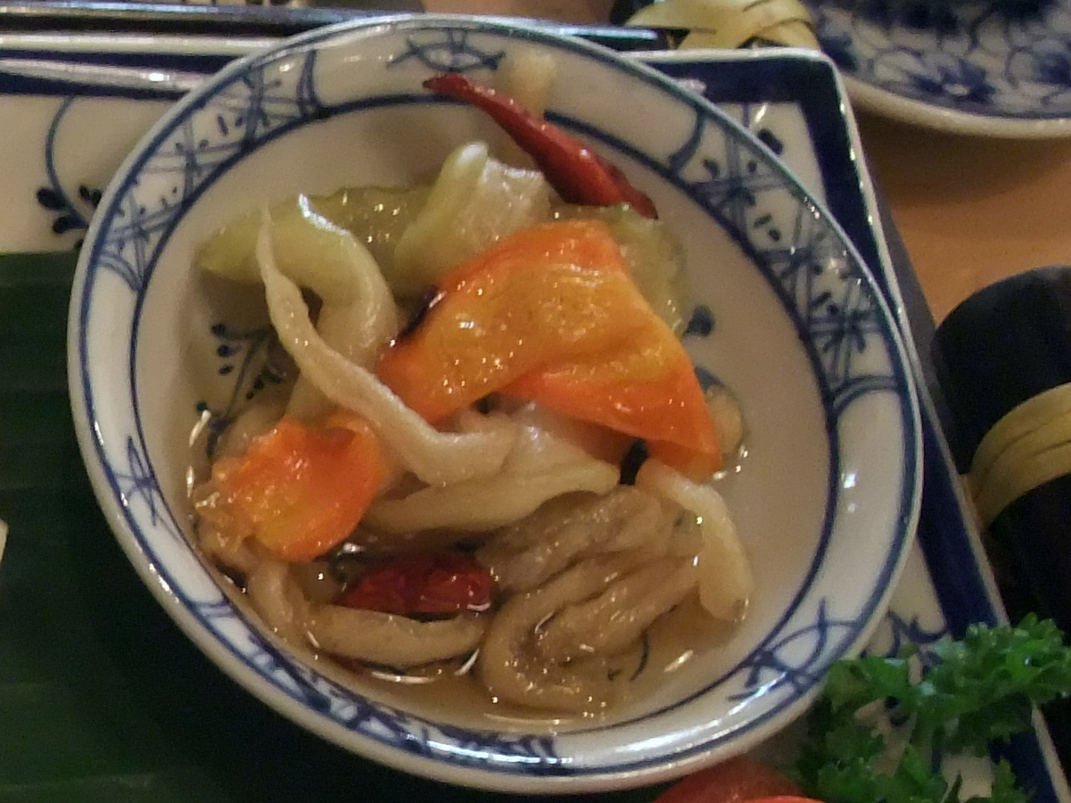 Pickles (sour, salted dried radish with fish sauce).